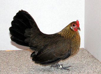 This is an image of a Dutch Bantam pullet.